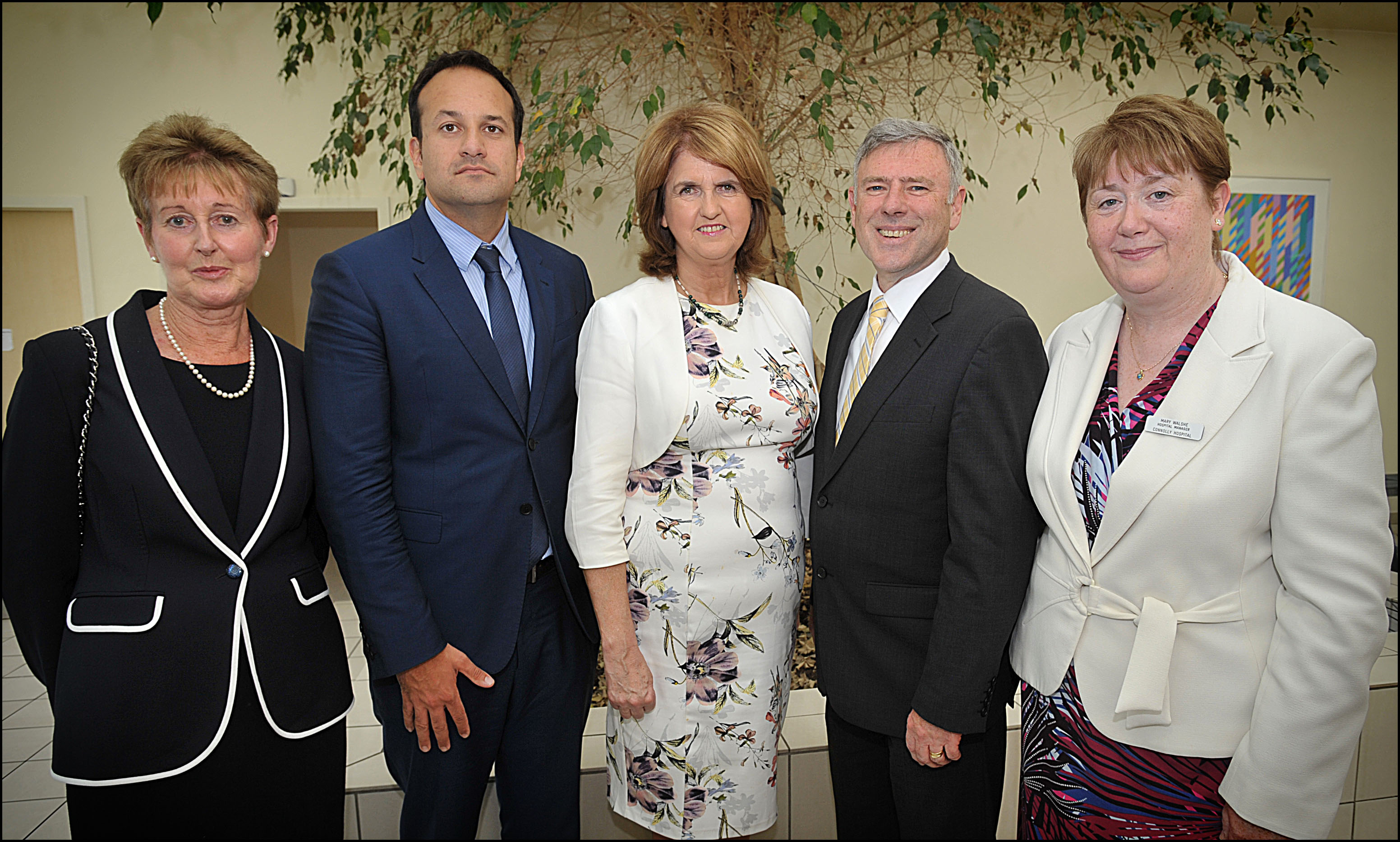 23-7-14 At the official opening of the Acute Medical Assessment Unit and MRI at Connolly Hospital, Blanchardstown today, Anne Maher, Chairperson, RCSI Hospitals Group, Leo Varadkar, Minister for Health, Ms Joan Burton, Tainiste and Minister for Social Protection, Dr. Tony O'Connell, National Director Acute Hospitals and Mary Walshe, Hospital Manager Pic Tommy Clancy - No Fee.